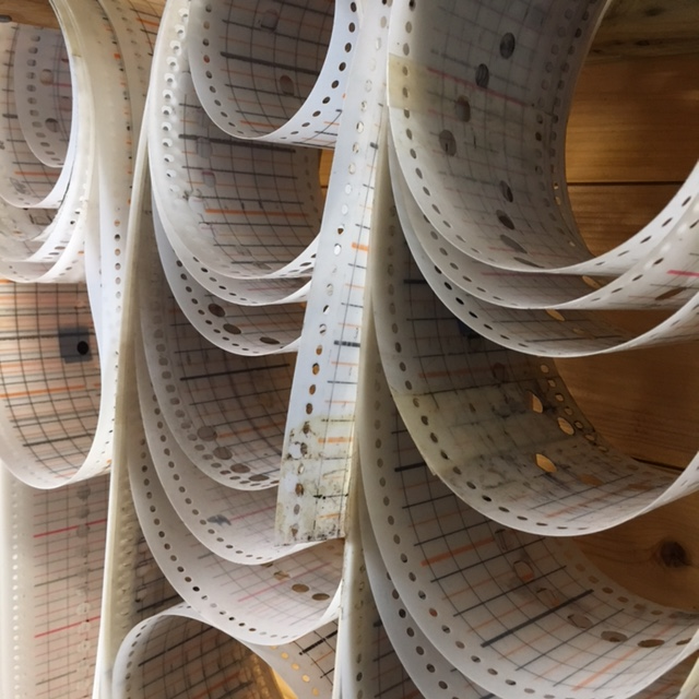 Weaving Patters Cards used by Skye Weavers, Isle of Skye